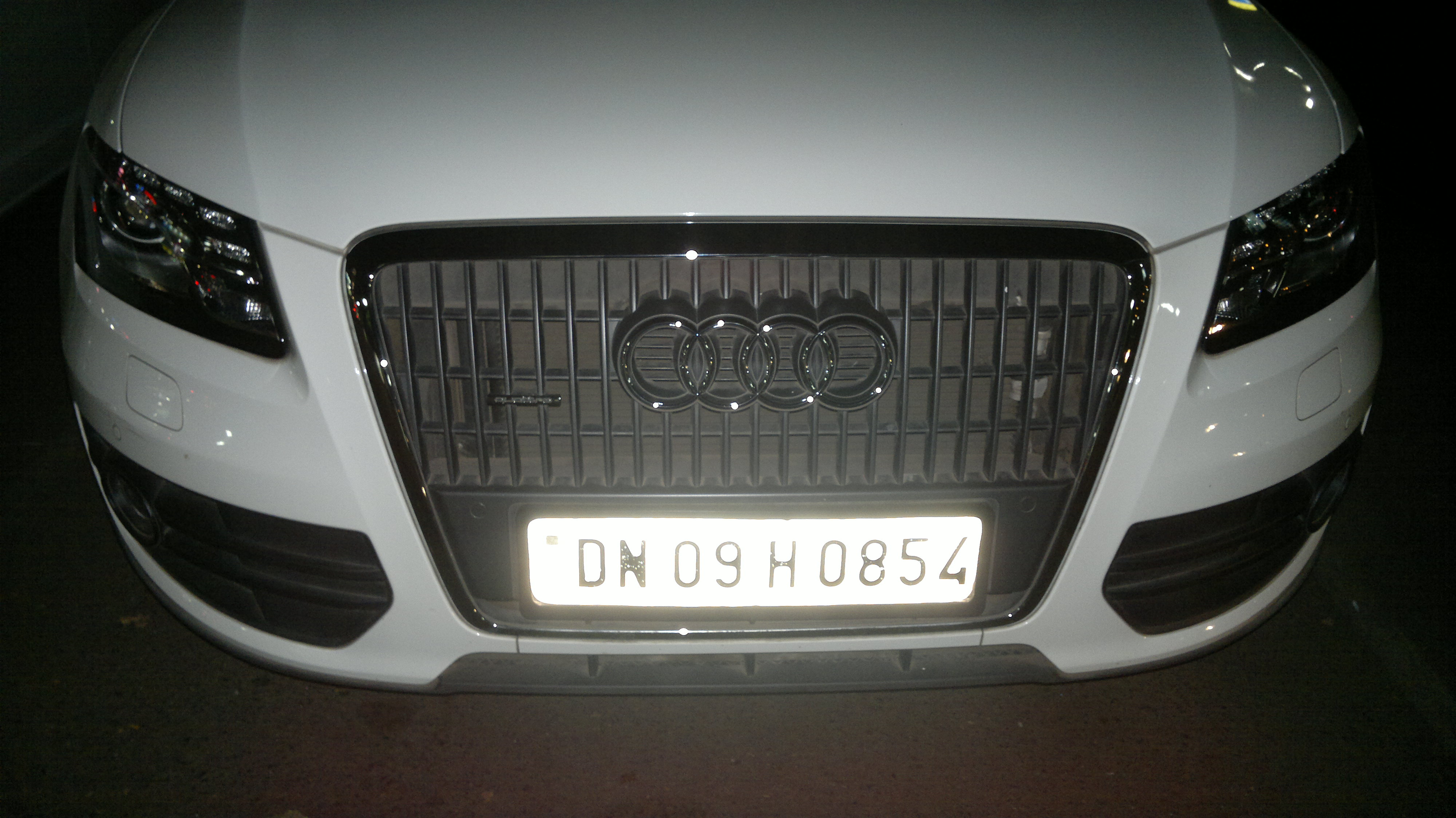 The Audi Q7 is a full-size luxury crossover SUV. It is the first SUV offering from Audi.